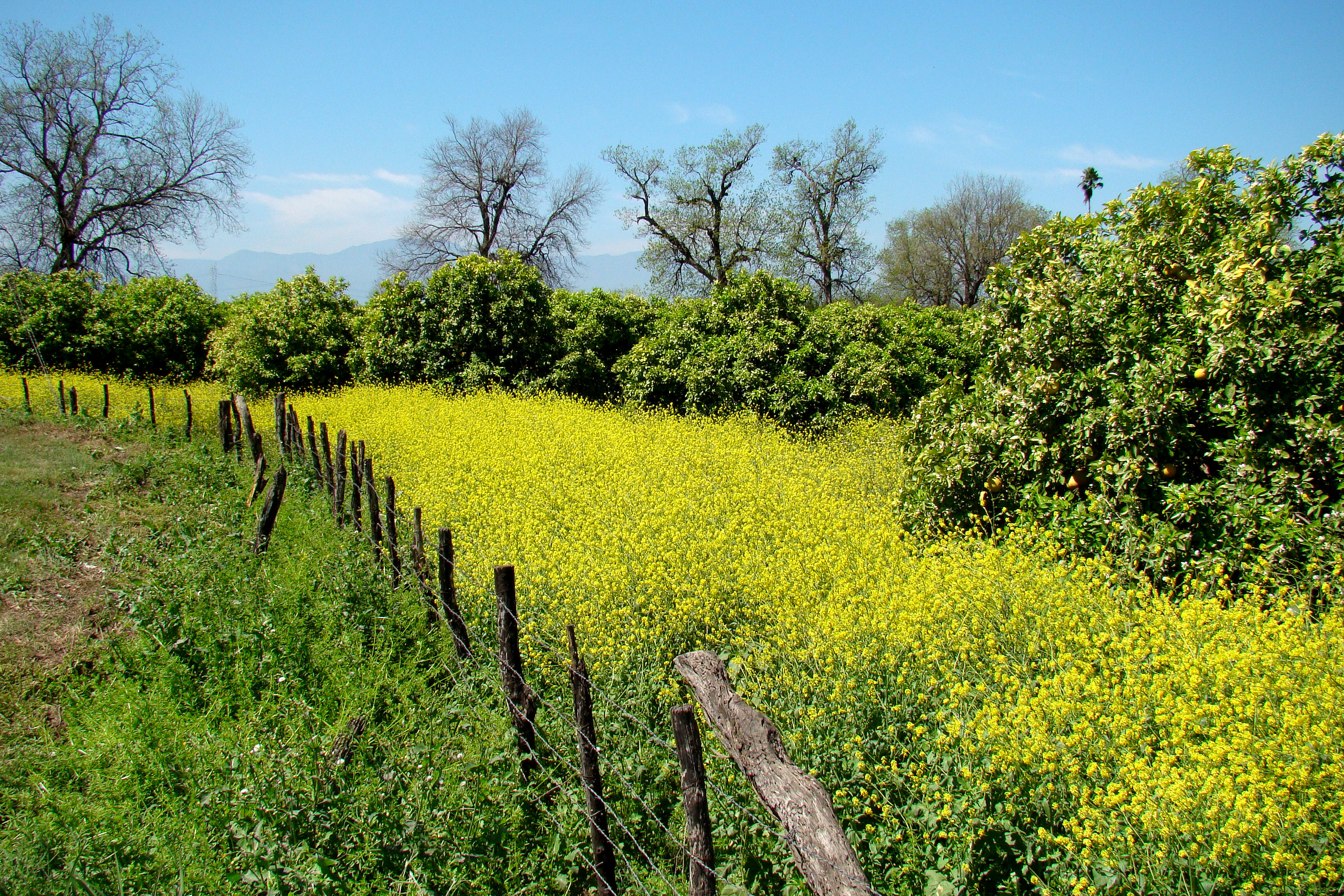 Orange trees in General Terán.